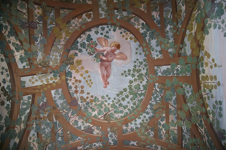 Villa Emo. The roof of the vestubule..Frescoes by Giovanni Battista Zelotti.